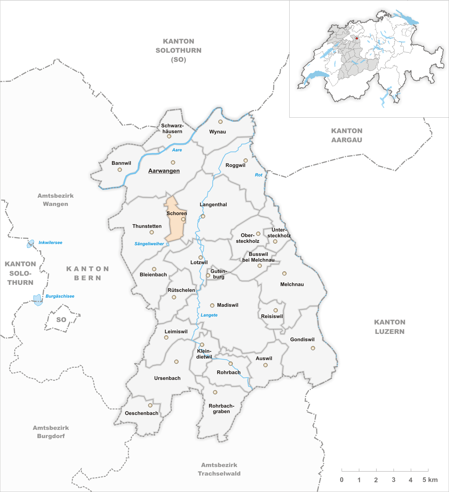 Municipality Schoren